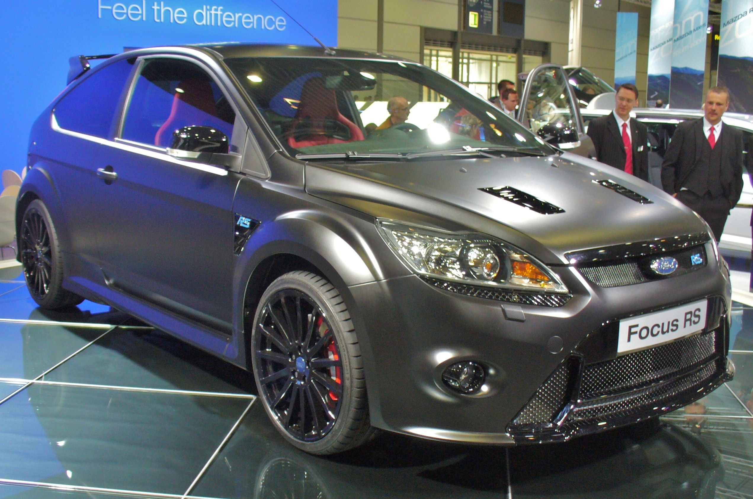 Ford Focus RS 500